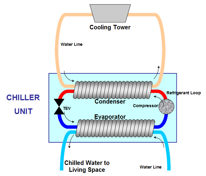 Diagram showing the components of a water cooled chiller (thermo expansion valve, evaporator, compressor, condenser) and connected components (condenser cooling line, cooling tower, chilled water line to living space)